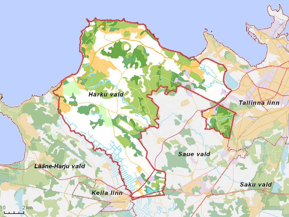 Map of municipality in Estonia